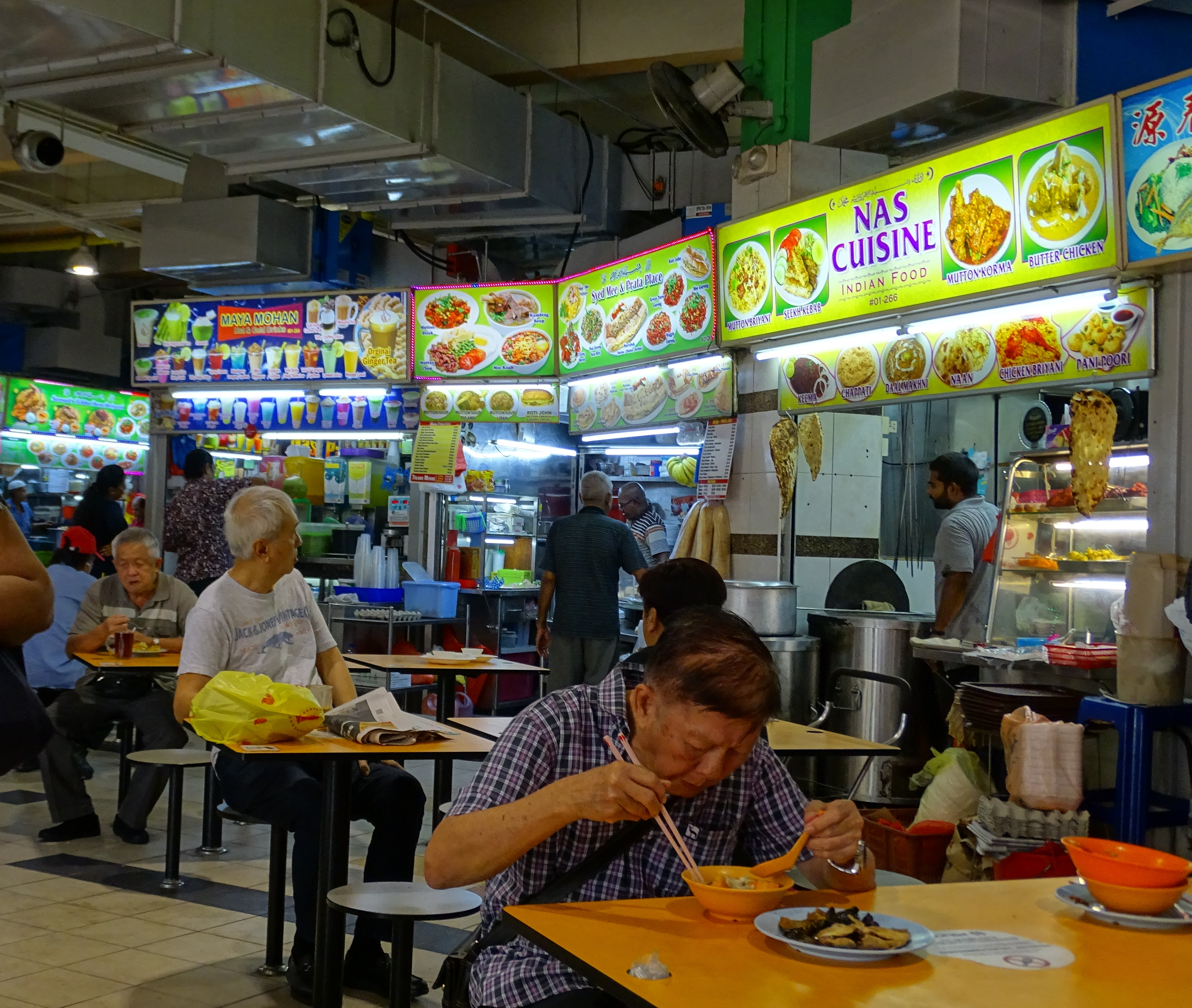 Little India Singapore, hawkers in Tekka Centre